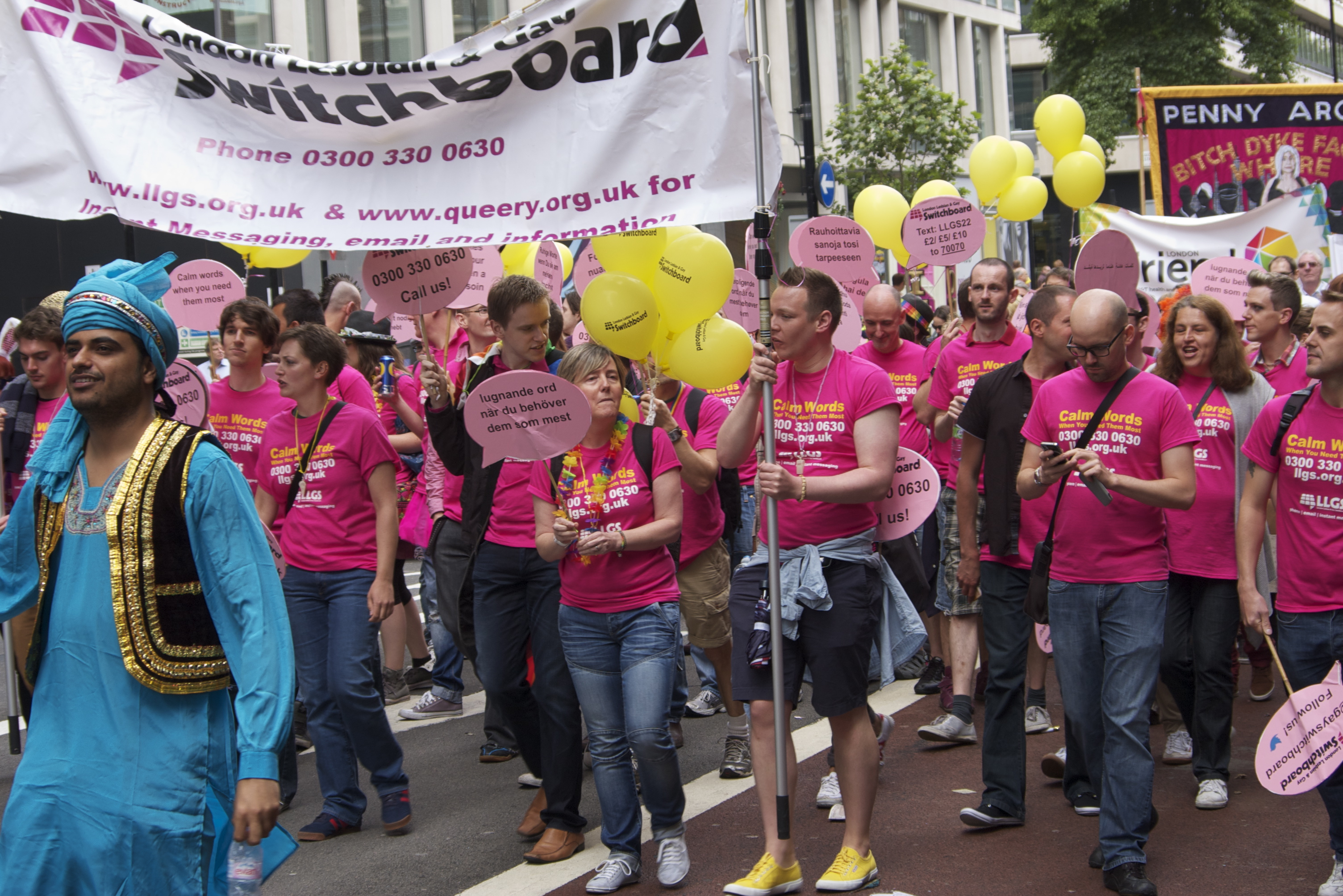 Marchers at Pride London/WorldPride 2012.